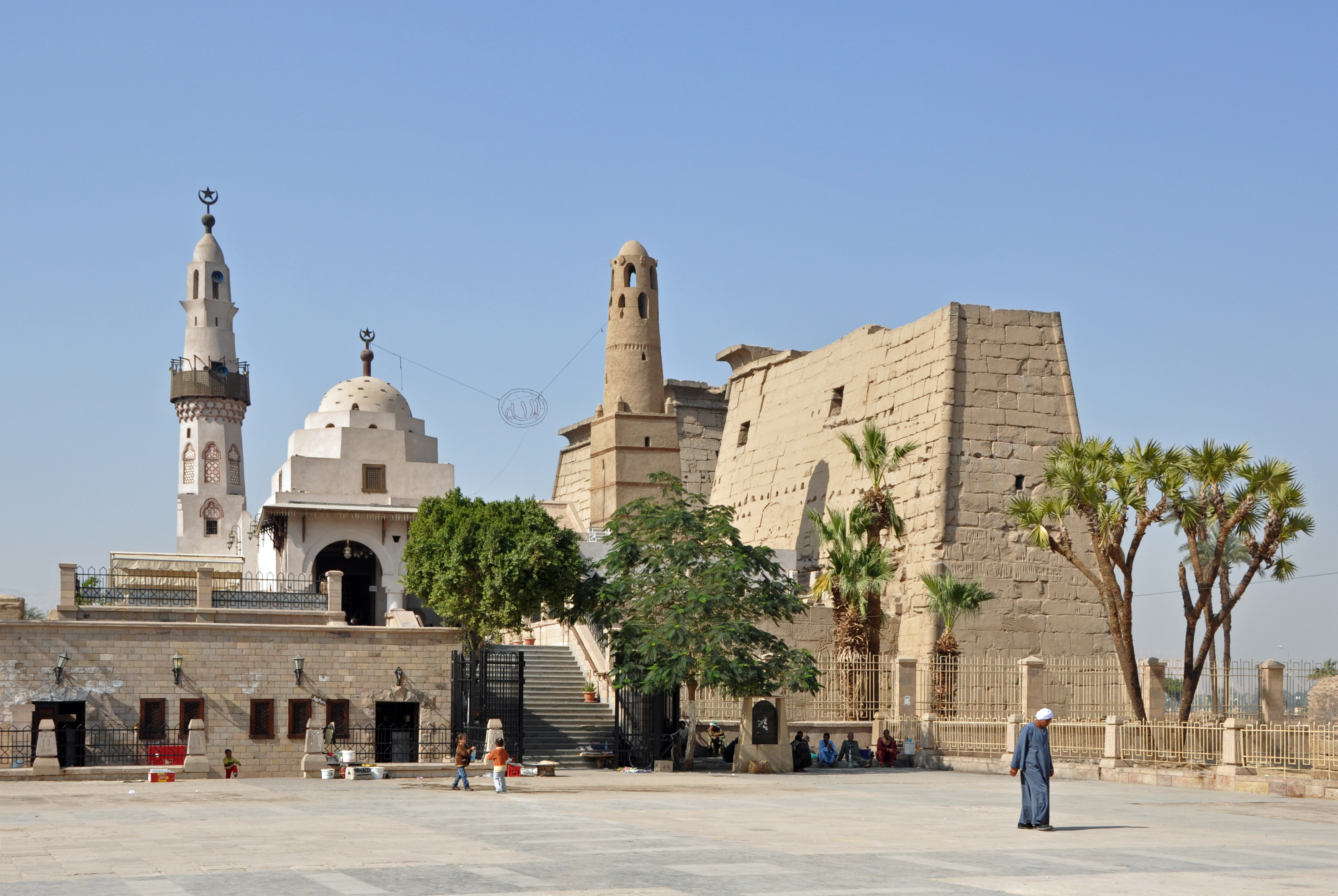 Luxor, Egypt: Abu el-Haggag Mosque and pylon of Luxor Temple